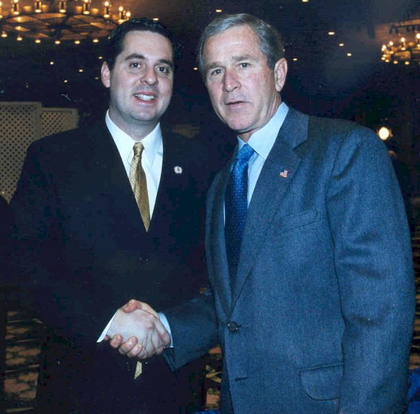 President George W. Bush with Rep. Devin Nunes (February 2003)